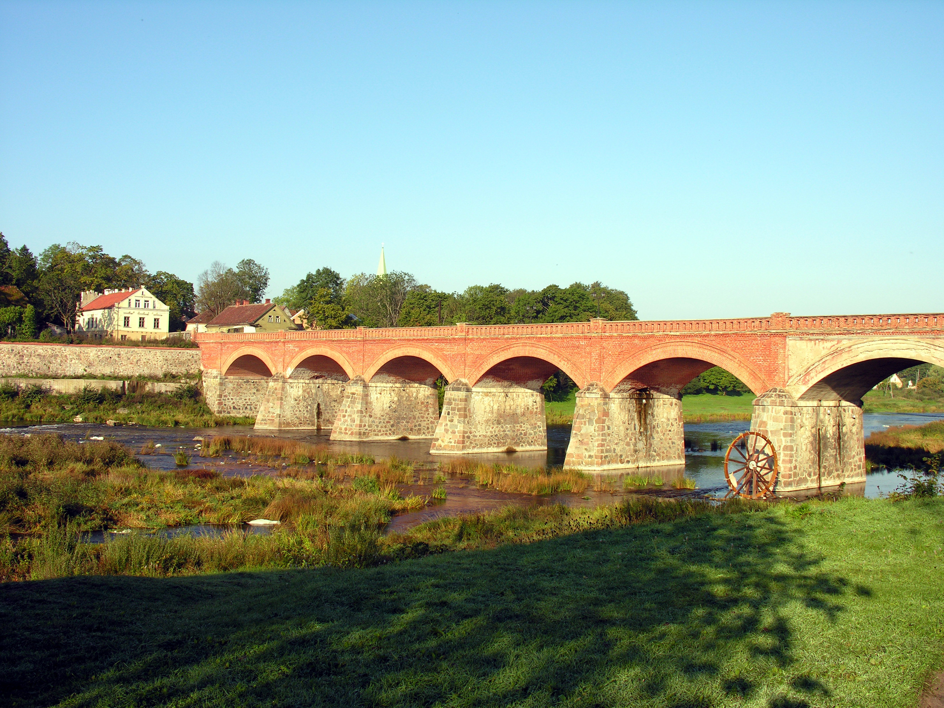 Bridge on Venta near Kuldiga